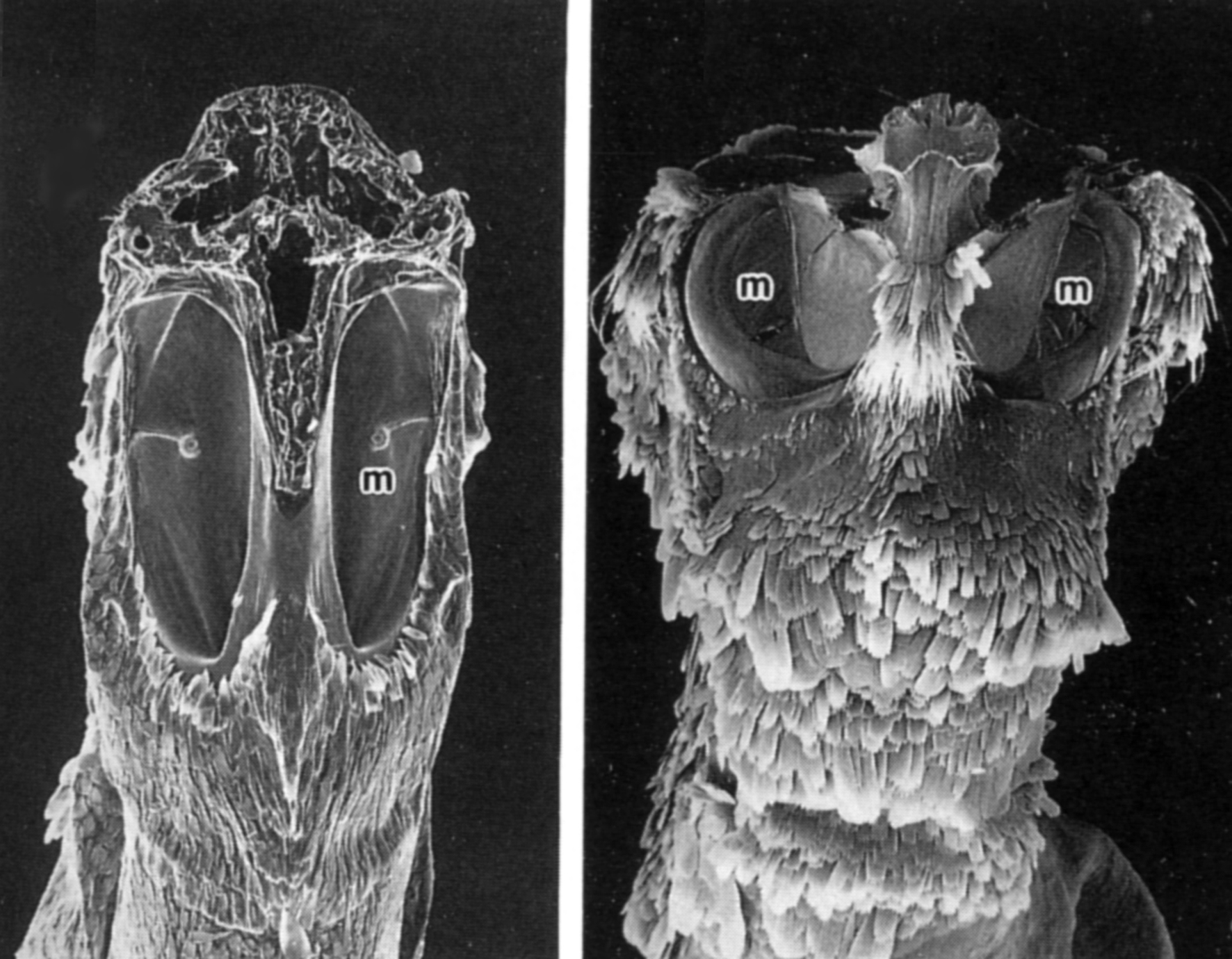 The Tympanal (hearing) organs of 2 moths viewed from the ventral (under) side. The image shows the abdomen where it has been removed from the thorax. The 'm' indicates the membrane of the tympanal organ. The moth on the left is a species of clothes moth, from the family Tineidae and the one on the right is a pyralid moth species (family Pyralidae).